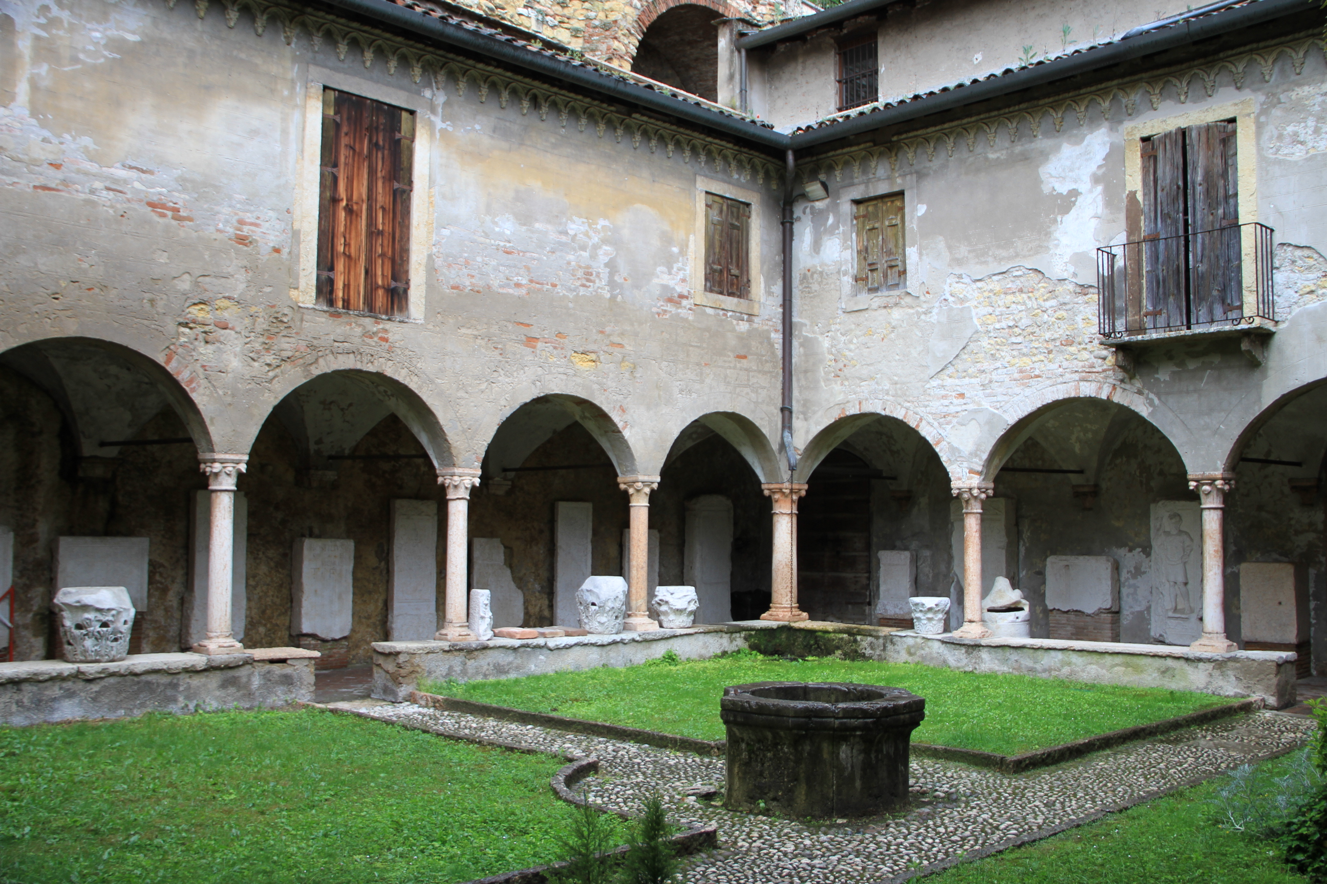 Museo archeologico al teatro romano (Verona)